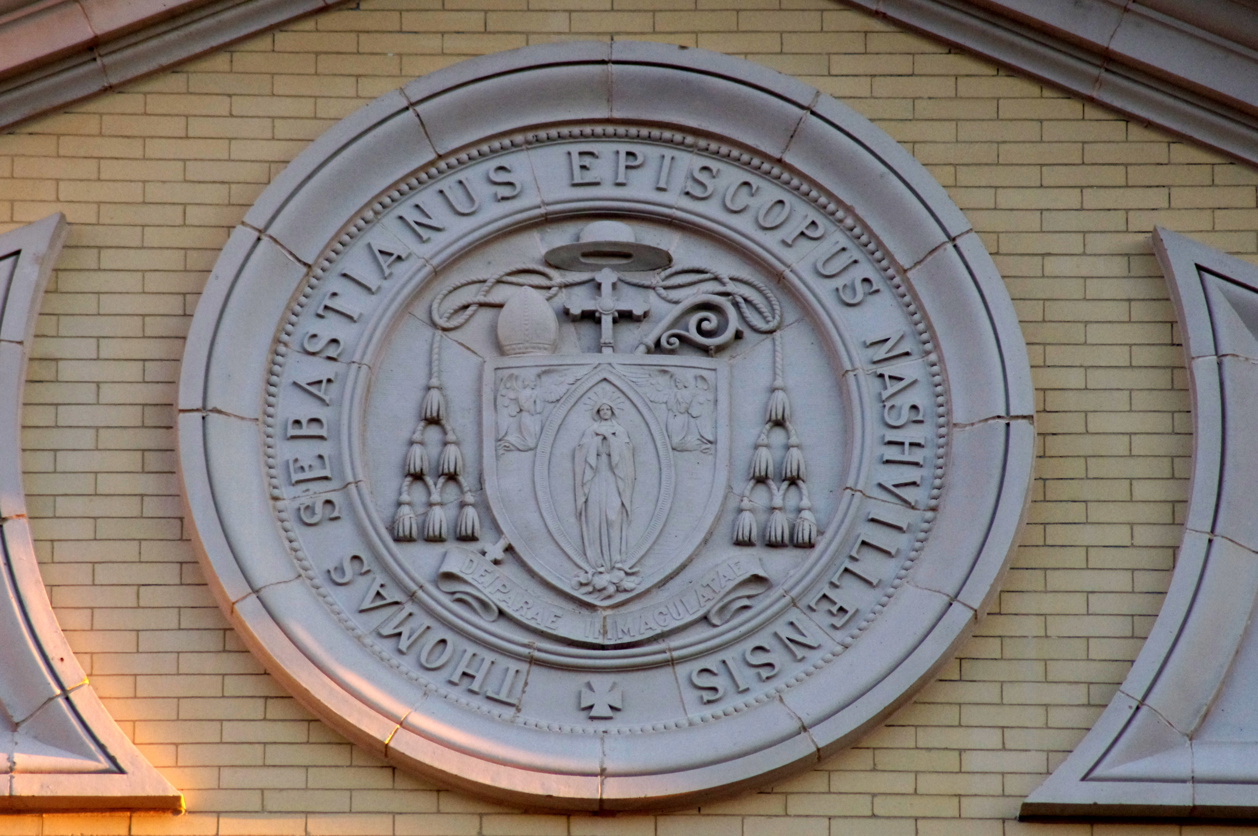 Cathedral of the Incarnation (Nashville, Tennessee) - exterior, coat of arms for Bishop Thomas Sebastian Byrne